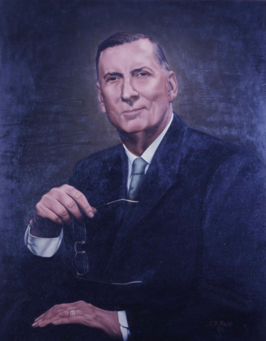 Collection: Governors Portraits photograph collection Call number: PI/1989.0008 System ID: 98807. Link to the catalog Governor Ross R. Barnett, Jan. 19, 1960 to Jan. 19, 1964. Please see our profile page for information on ordering. Scanned as tiff in 2008/09/29 by MDAH. Credit: Courtesy of the Mississippi Department of Archives and History